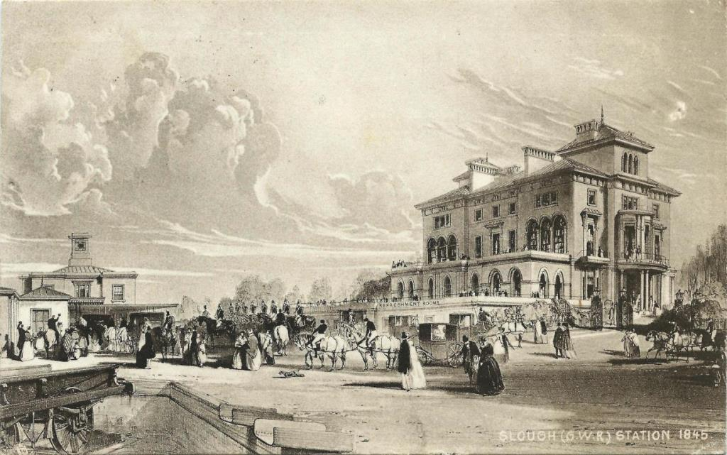 A Great Western Railway postcard depicting Slough station as it was in 1845.